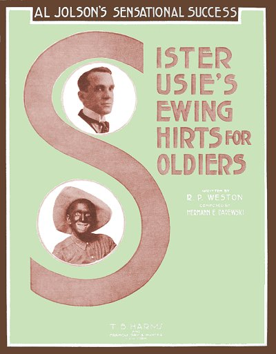 The record cover for Sister Susie's Sewing Shirts for Soldiers